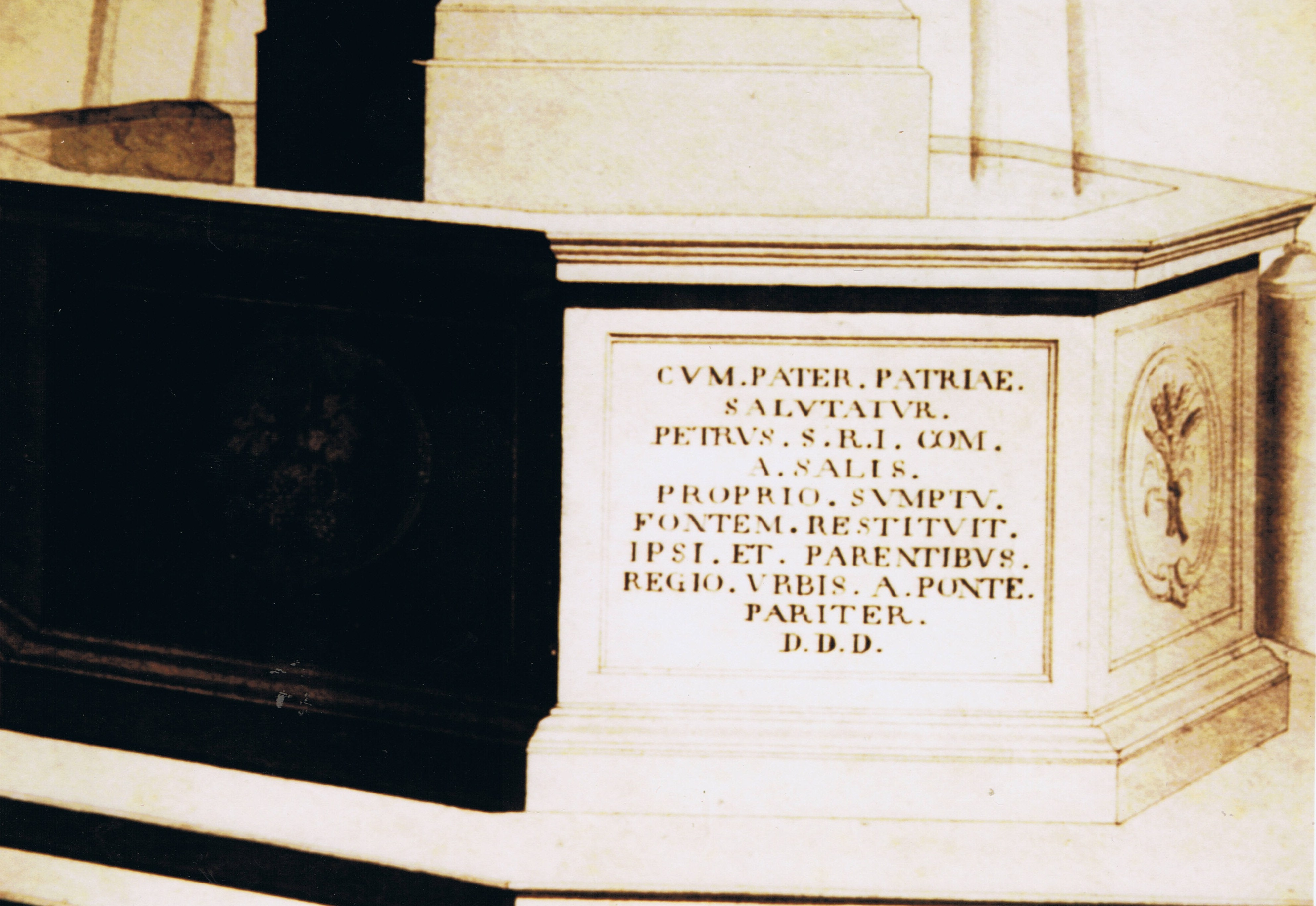 scan of a photo (R. de Salis, Oct. 2009) of a photo (c.1860) of a, contemporary with its creation, drawing of the statue. Drawing was used as basis of a contemporary print. 1860s photo belonged to William & Emily Fane de Salis of Teffont.Rodolph (talk) 01:52, 2 December 2009 (UTC)